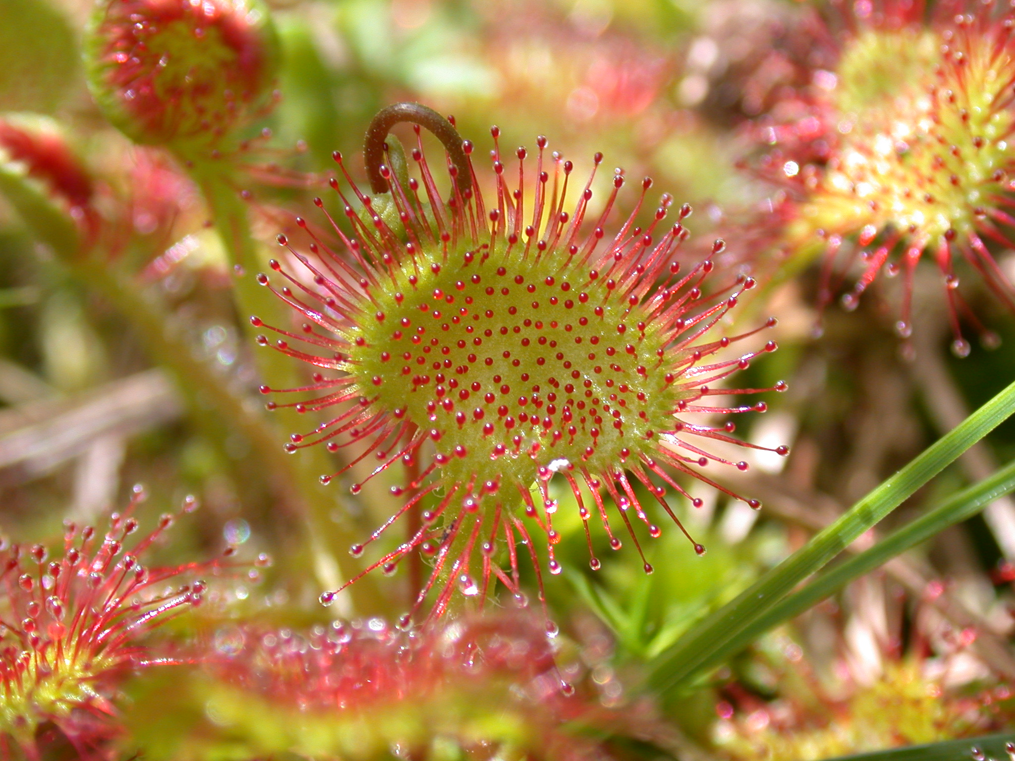 Leaves of Drosera rotundifolia (Droseraceae); Rossweid, Sörenberg, Canton of Lucerne, Switzerland